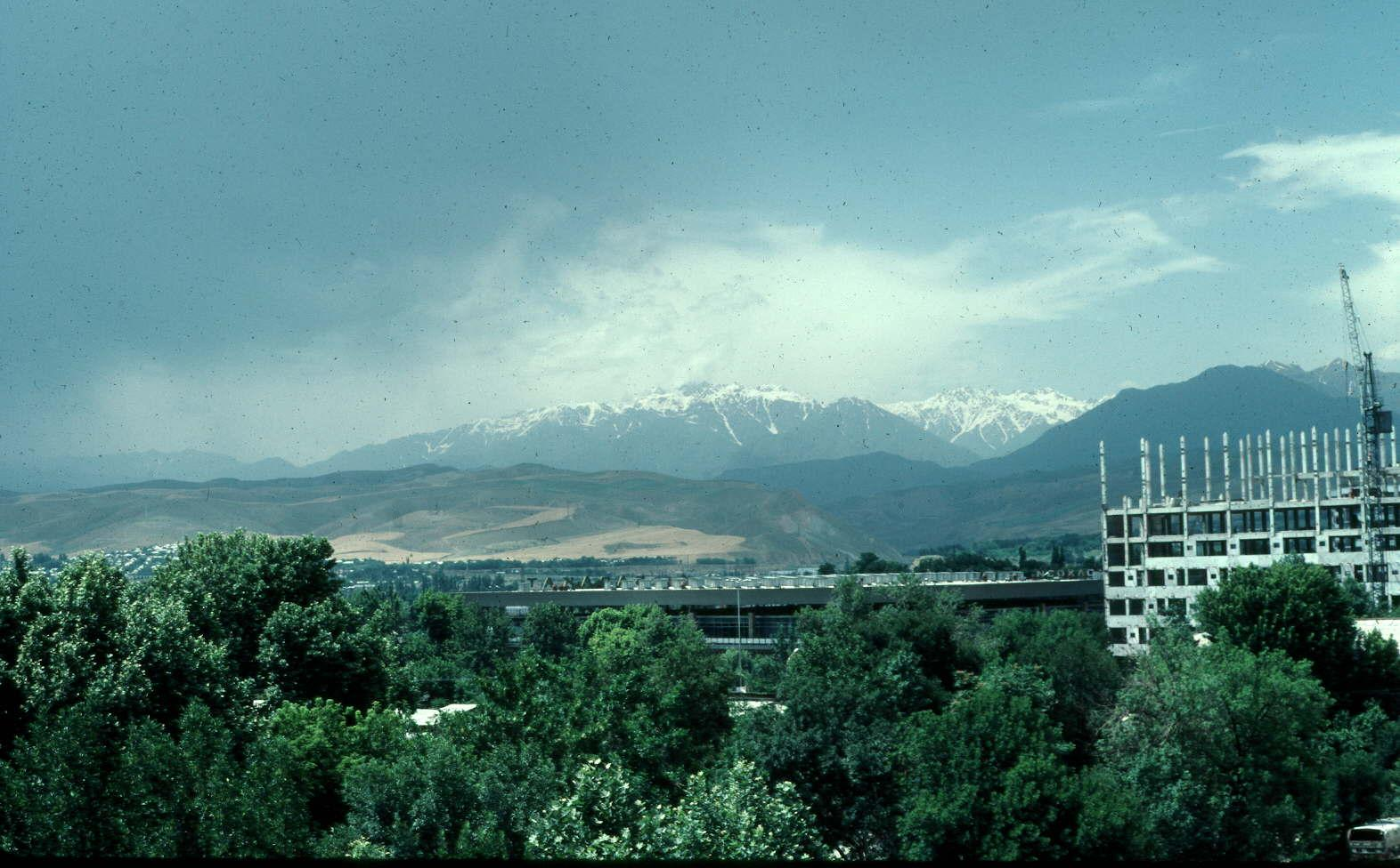 Photo taken in 1983.Not home (talk) 22:17, 13 December 2007 (UTC)